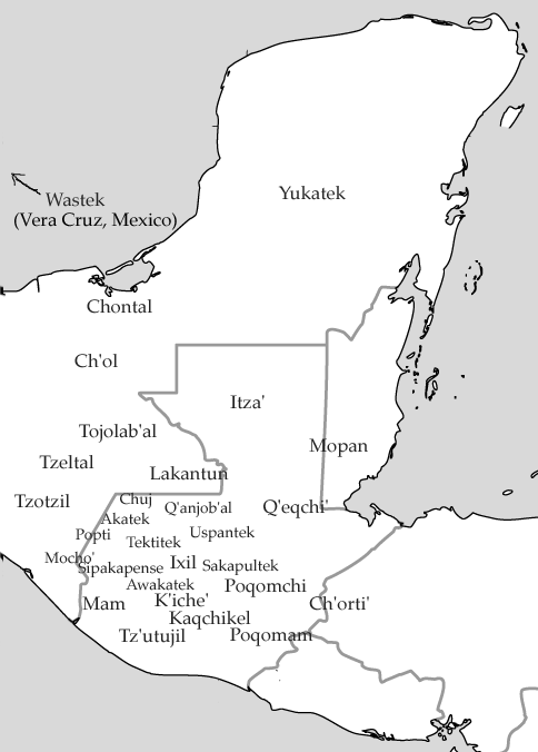 Map showing the locations of different Mayan languages in central america. Made by Maunus based on a outline map from Perry Castañeda public domain map collection